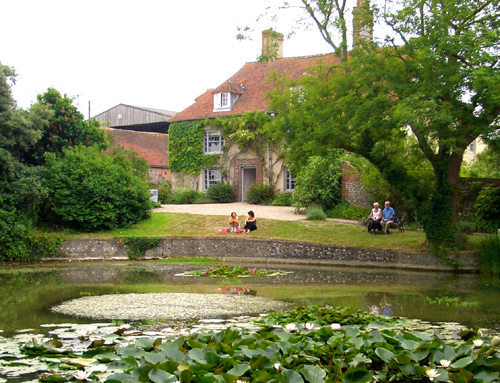 Charleston Farmhouse, near Lewes in East Sussex, UK. Previously home of Vanessa and Clive Bell, and the artist Duncan Grant. Taken by user:APB-CMX in July 2006. Uploaded by APB-CMX 08:42, 9 December 2006 (UTC)